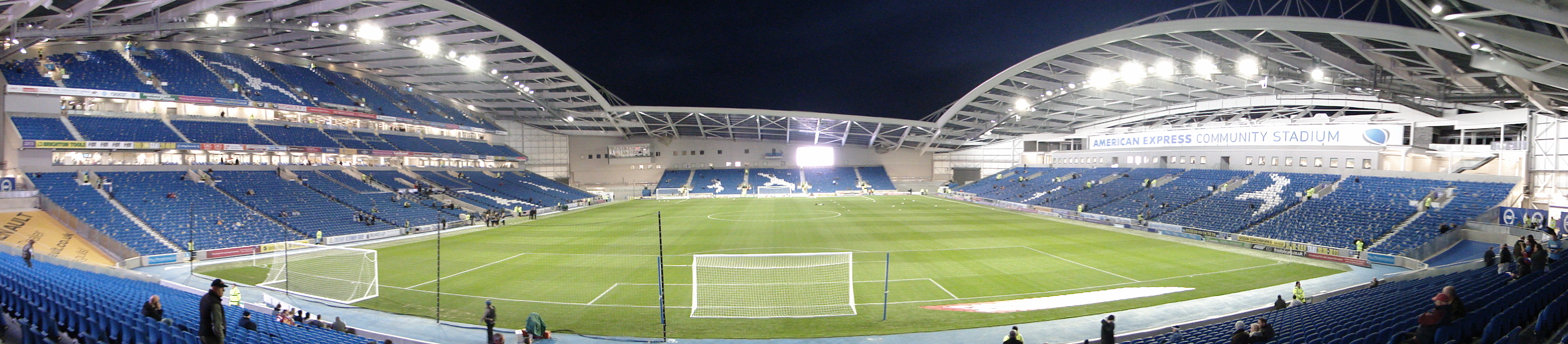 Brighton's Amex Stadium - a panorama from the away supporters' end.